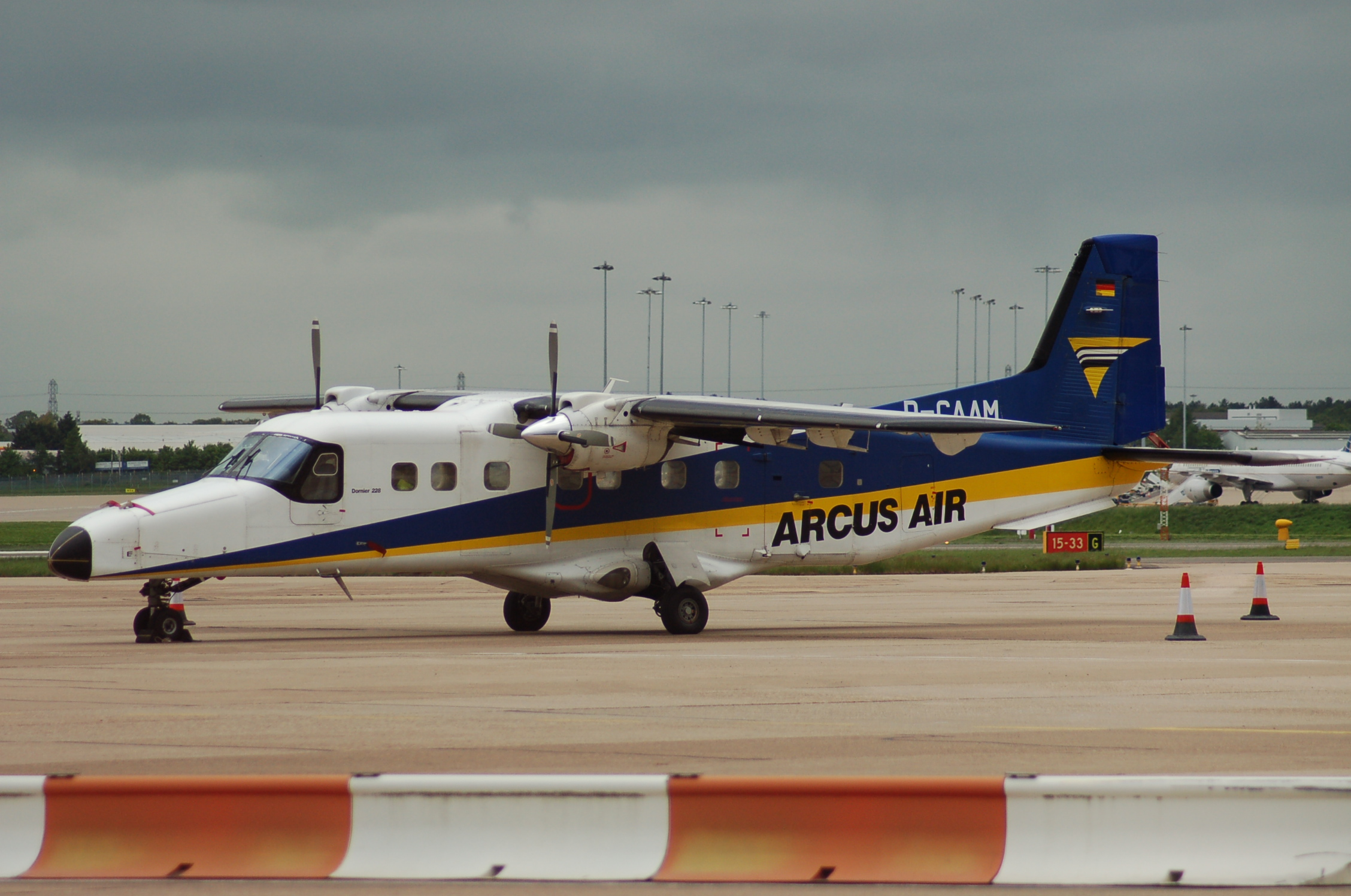 Dornier Do 228 of Arcus Air at Birmingham BHX, 24/05/13.